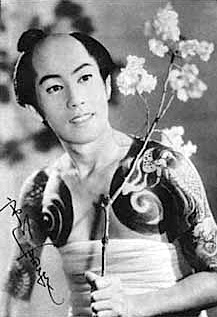 Raizō Ichikawa VIII (1931–69) in Jinan-bō Hangan (1955)